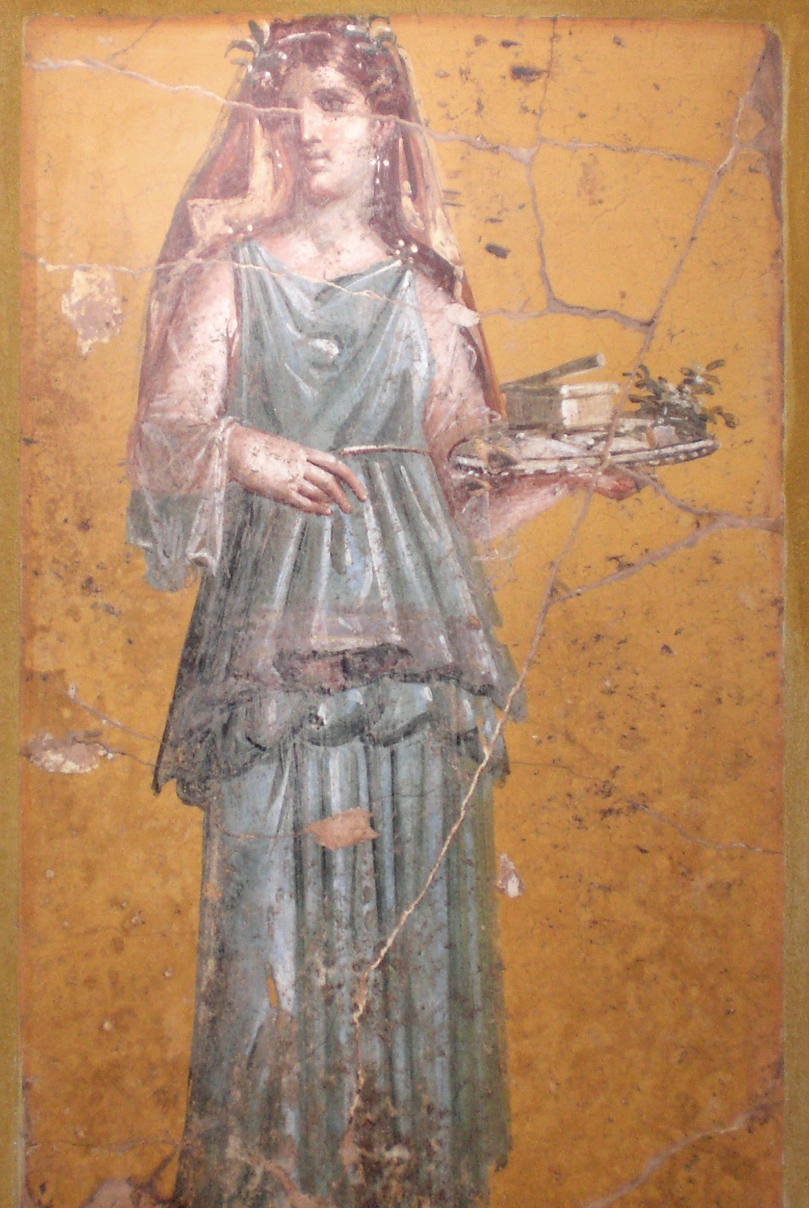 Fresco of woman with tray in Villa San Marco of Stabiae